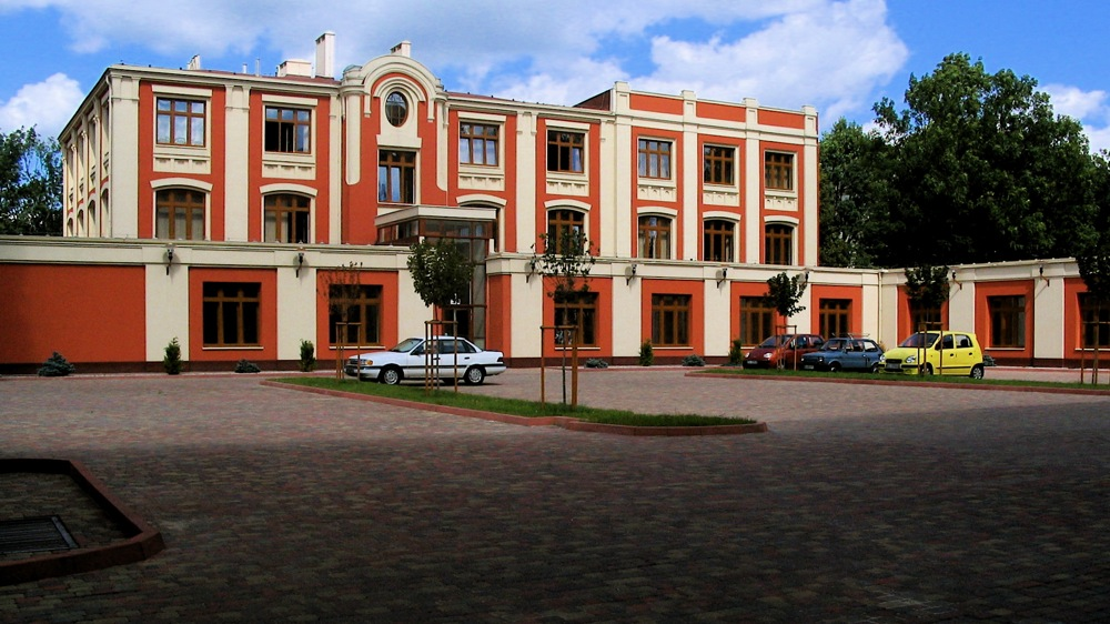 Faculty of Educational Sciences' University in Łódź